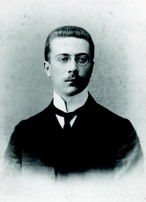 Ernst Hellinger; Annotation: 1883-1950